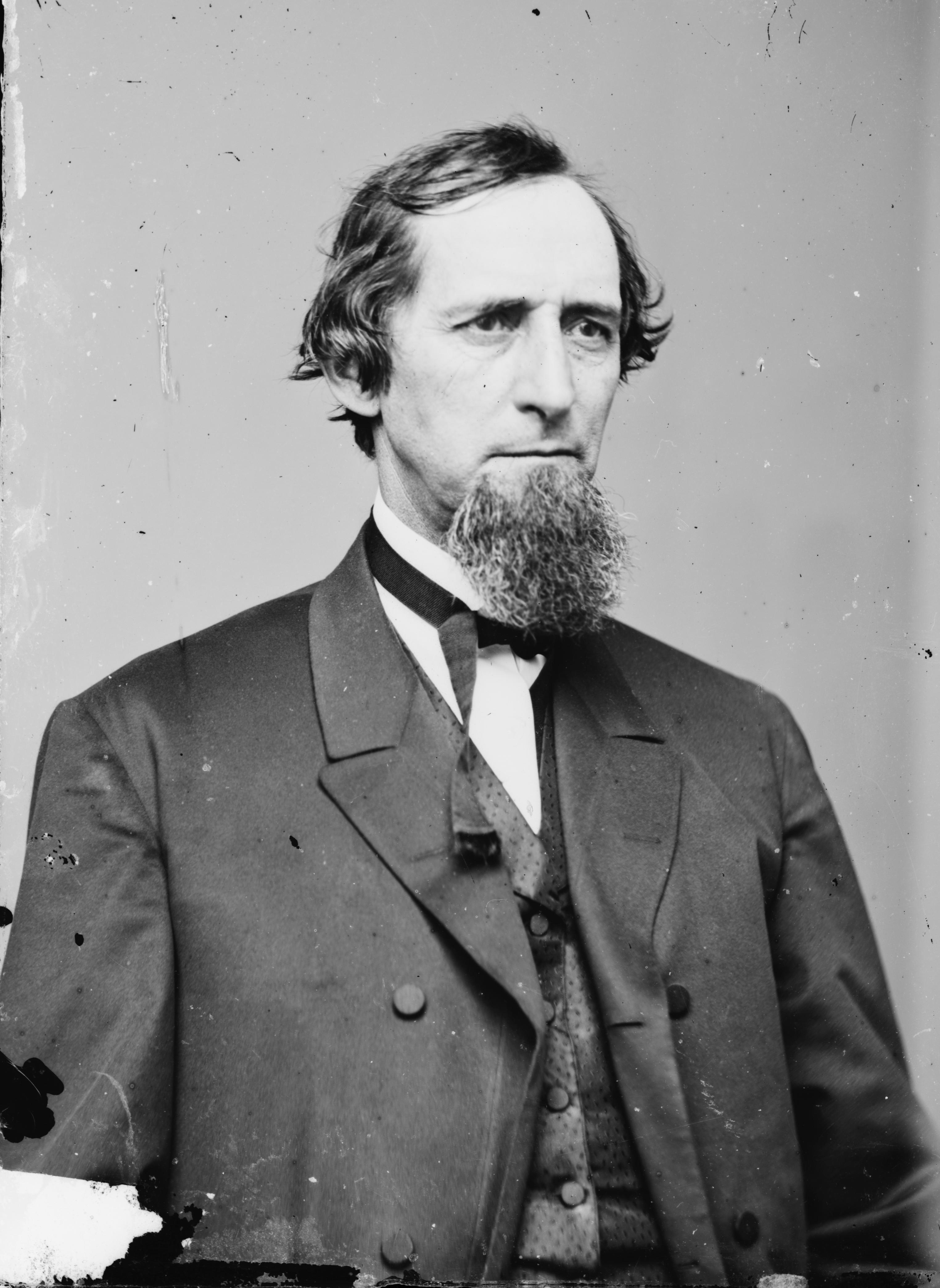 Edgar Cowan. Library of Congress description: "Hon. Edgar Cowan"